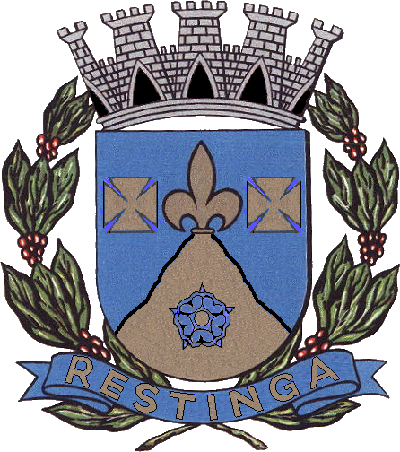 Coat of Arms of the city of Restinga, São Paulo state, Brazil.